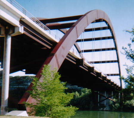 The Pennybacker Bridge in Austin, Texas, United States.